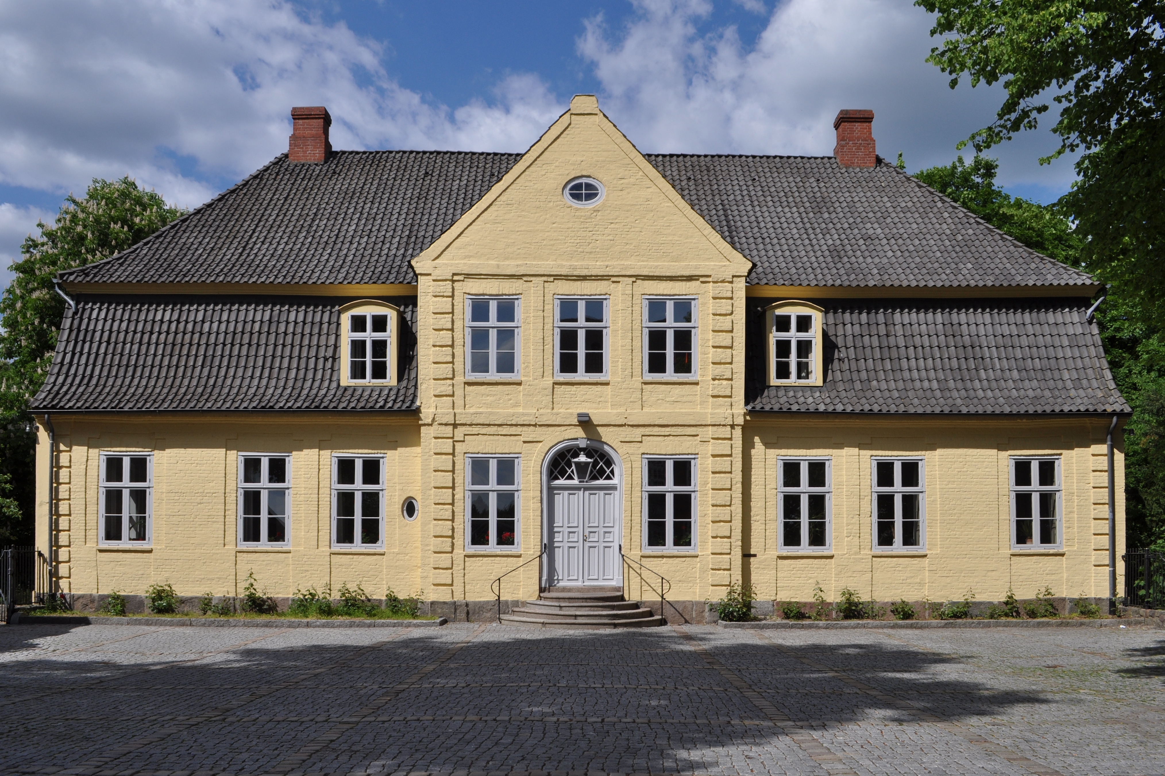 Haus Segeberg, Hamburger Straße 25 in Bad Segeberg.